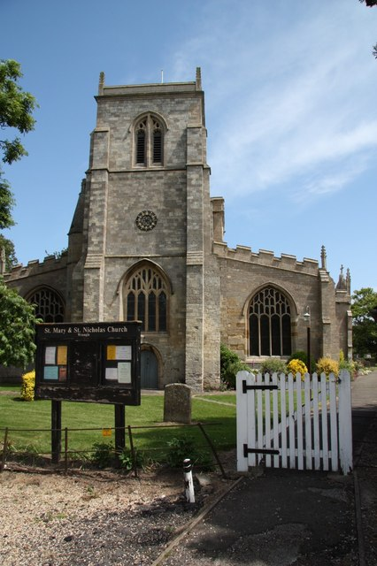 St.Mary & St.Nicholas' church Perpendicular marshland church